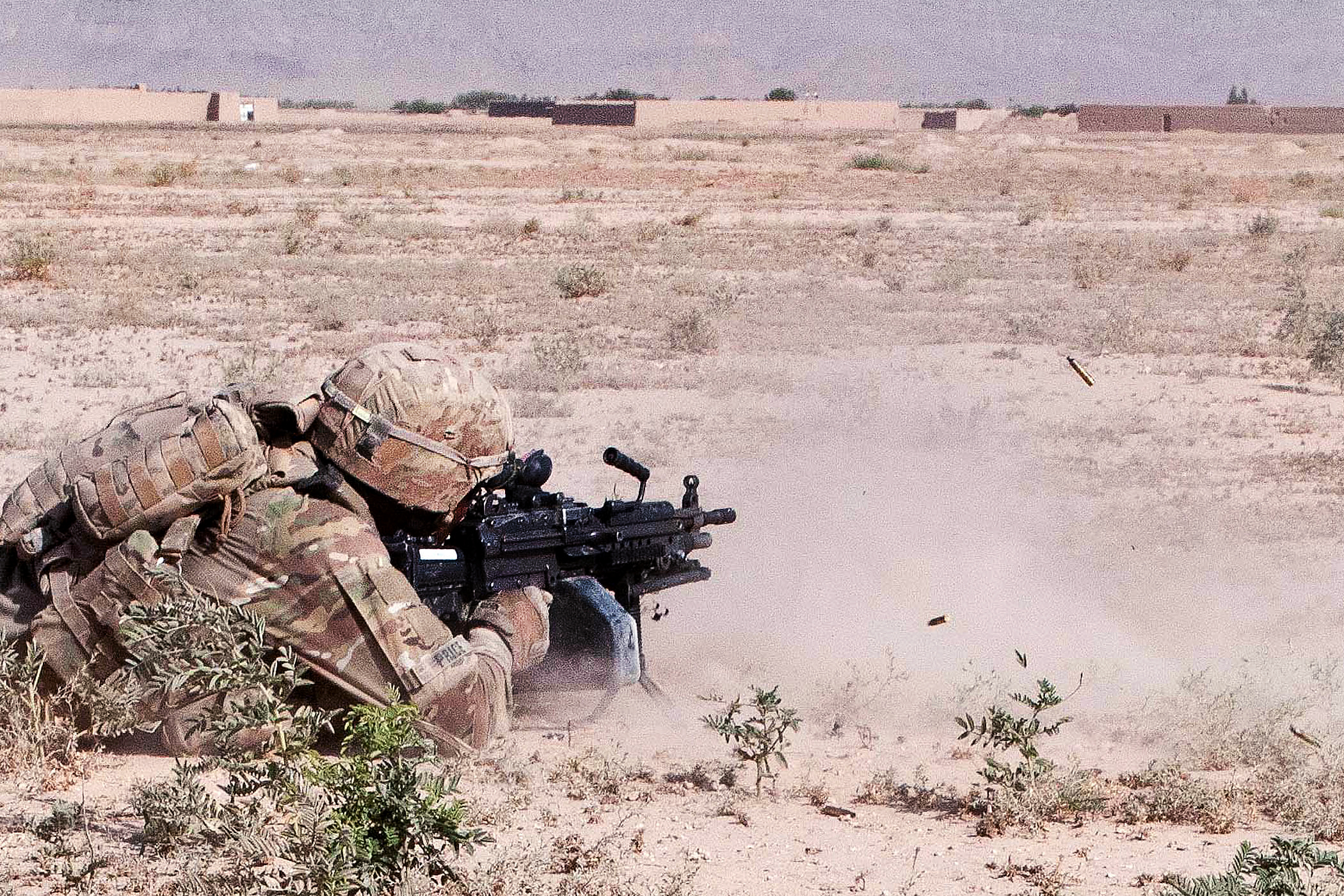 U.S. Army Spc. David Kemp returns fire on insurgents when they engaged his platoon with small-arms fire during a foot patrol in Afghanistan's Ghazni province, Aug. 1, 2012. Price is assigned to the 82nd Airborne Division's Company A, 1st Battalion, 504th Parachute Infantry Regiment, 1st Brigade Combat Team.